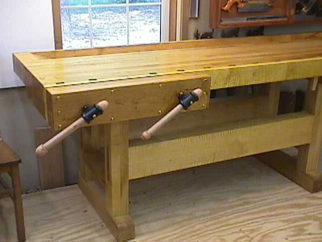 The Veritas twin-screw vise